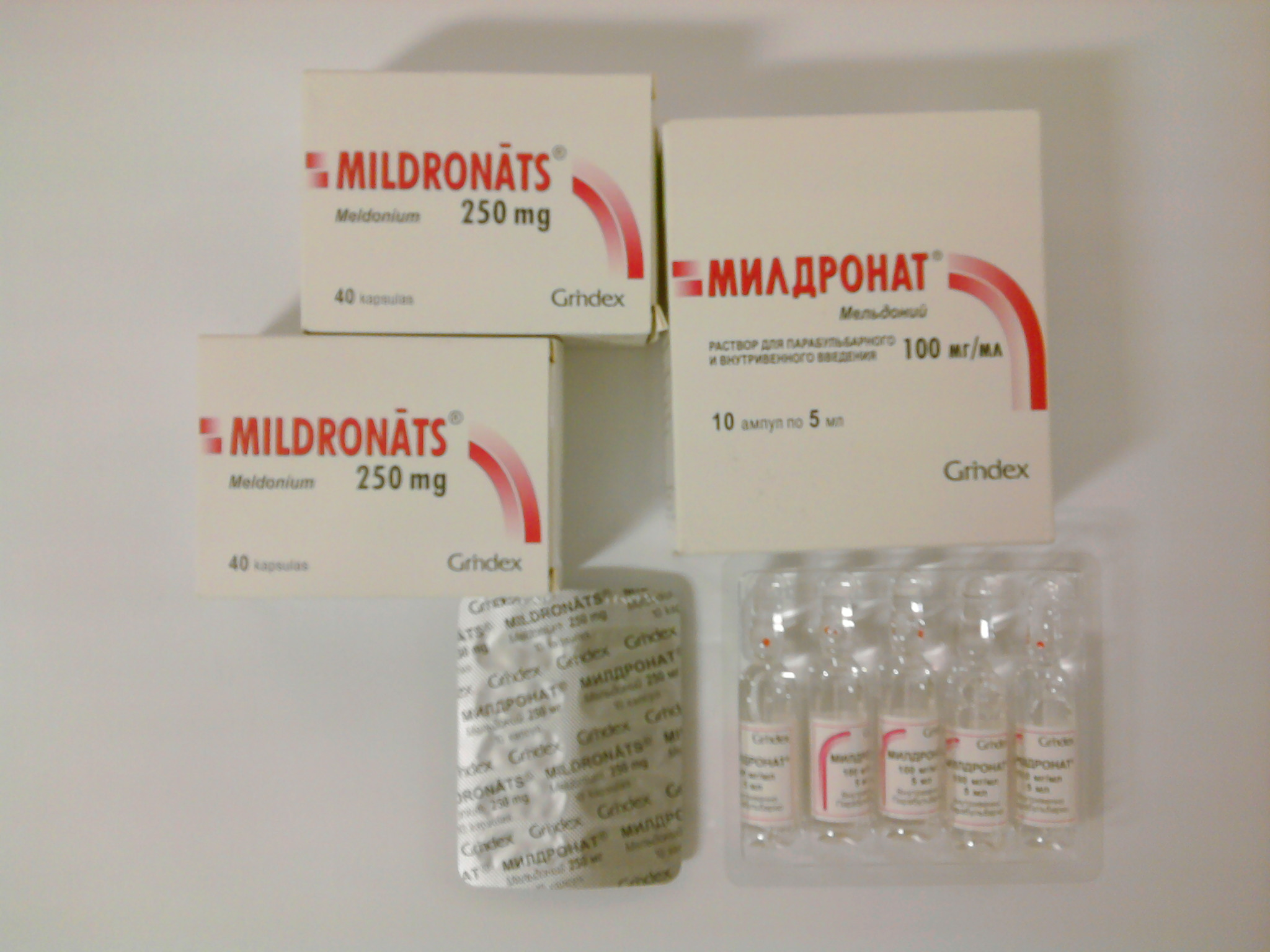 The packaging of Mildronate (250 mg capsules N60) and (Injection 10% 5 ml N10)